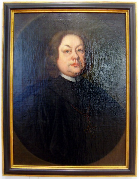 Adolf von Dalberg (1678-1737) Fürstabt von Fulda